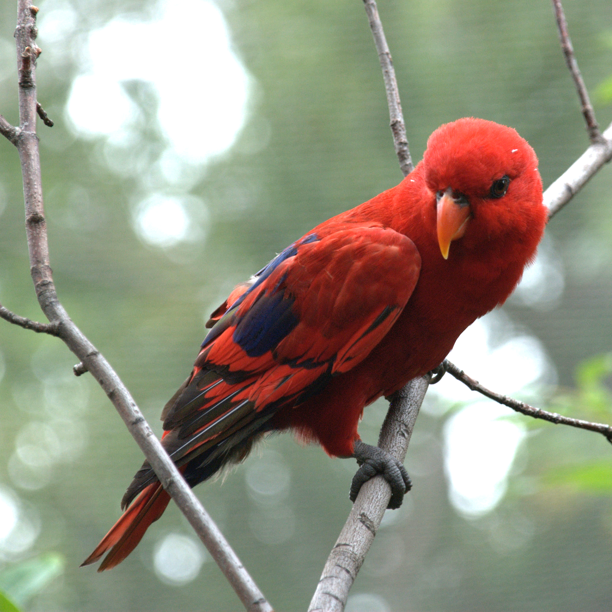 A Red Lory at Buffalo Zoo, USA.